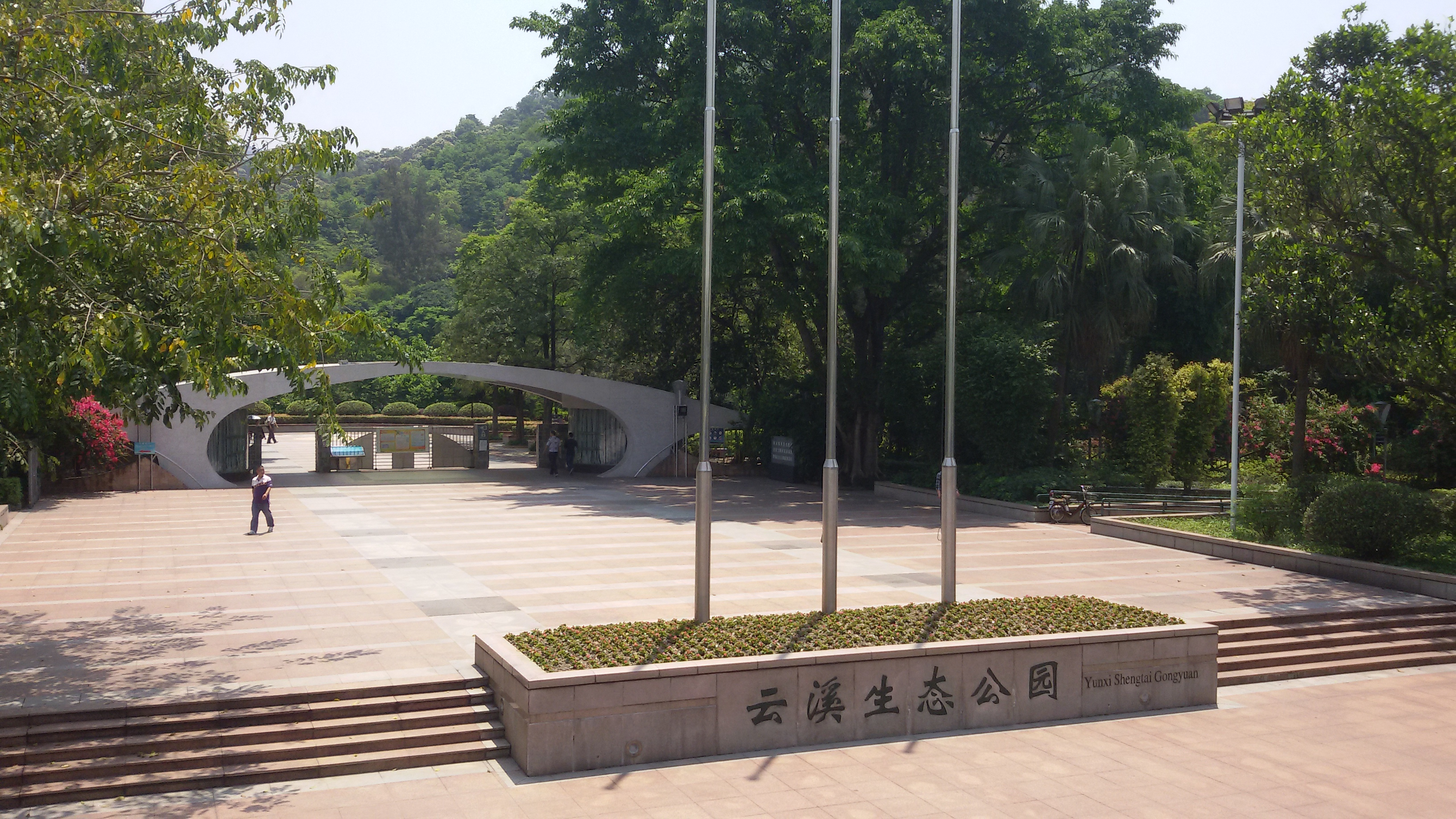 云溪生态公园嘅正门